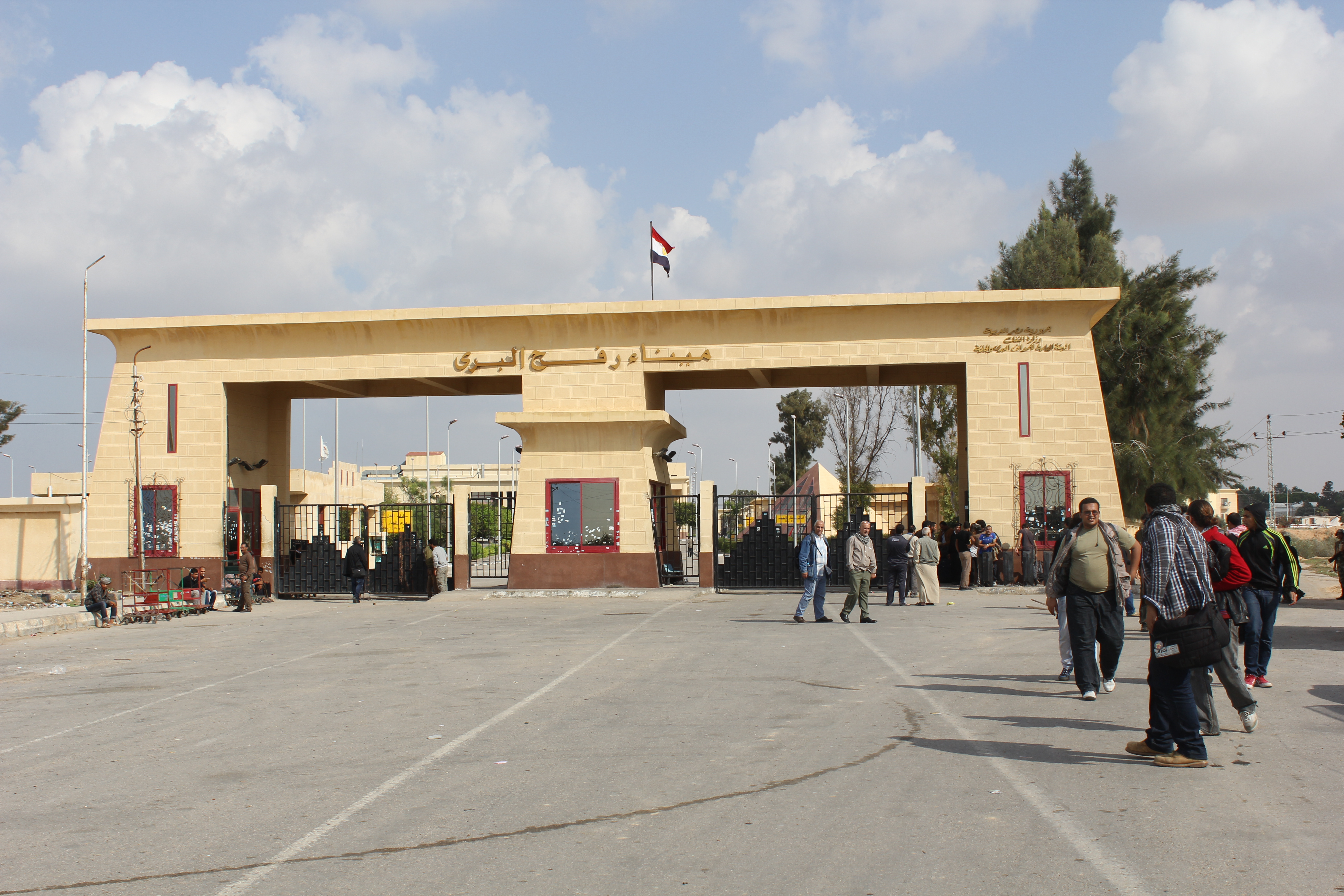 Egyptian Convoy to Gaza, Palestine.